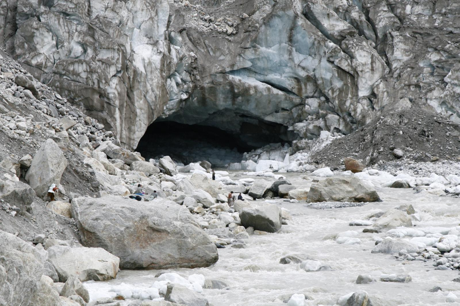 View of Gaumukh. The beginning of Ganges River.